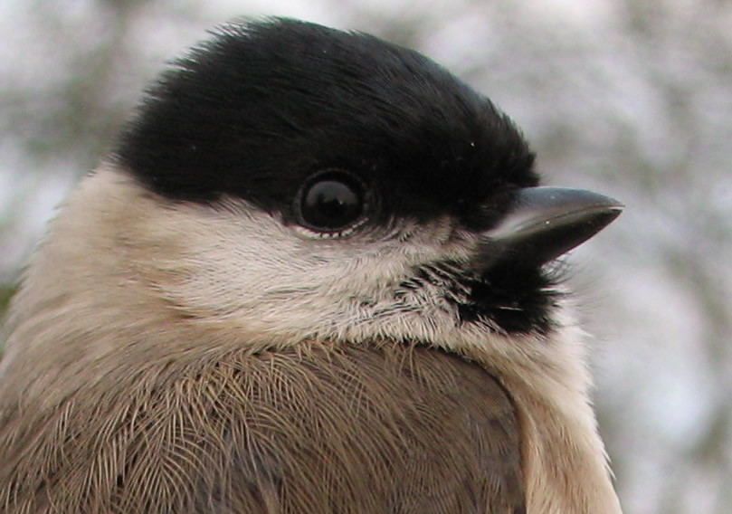 Marsh Tit, Poecile palustris, caught for ringing (banding) in Cambridgeshire, England. Shows diagnostic pale 'cutting edges' to bill